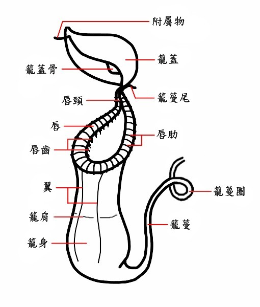 Nepenthes upper pitcher diagram Created in Inkscape by Mgiganteus1